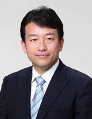 Sasagawa Hiroyoshi was inaugurated as Parliamentary Vice-Minister of the Environment on August, 2017